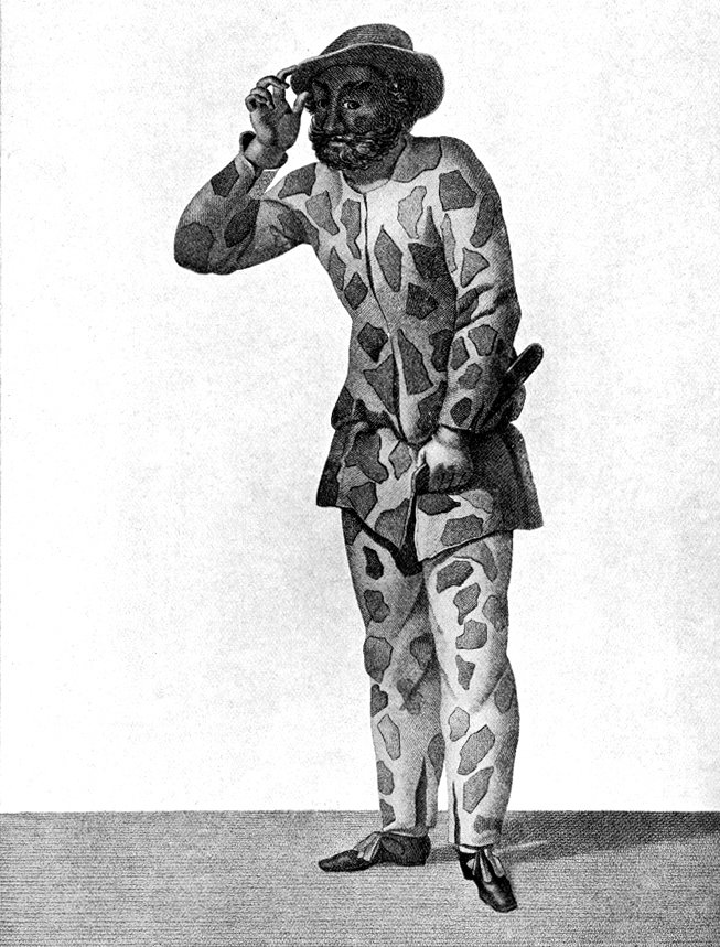 Trivelin, a French theatrical character type, after a 17th-Century vignette.